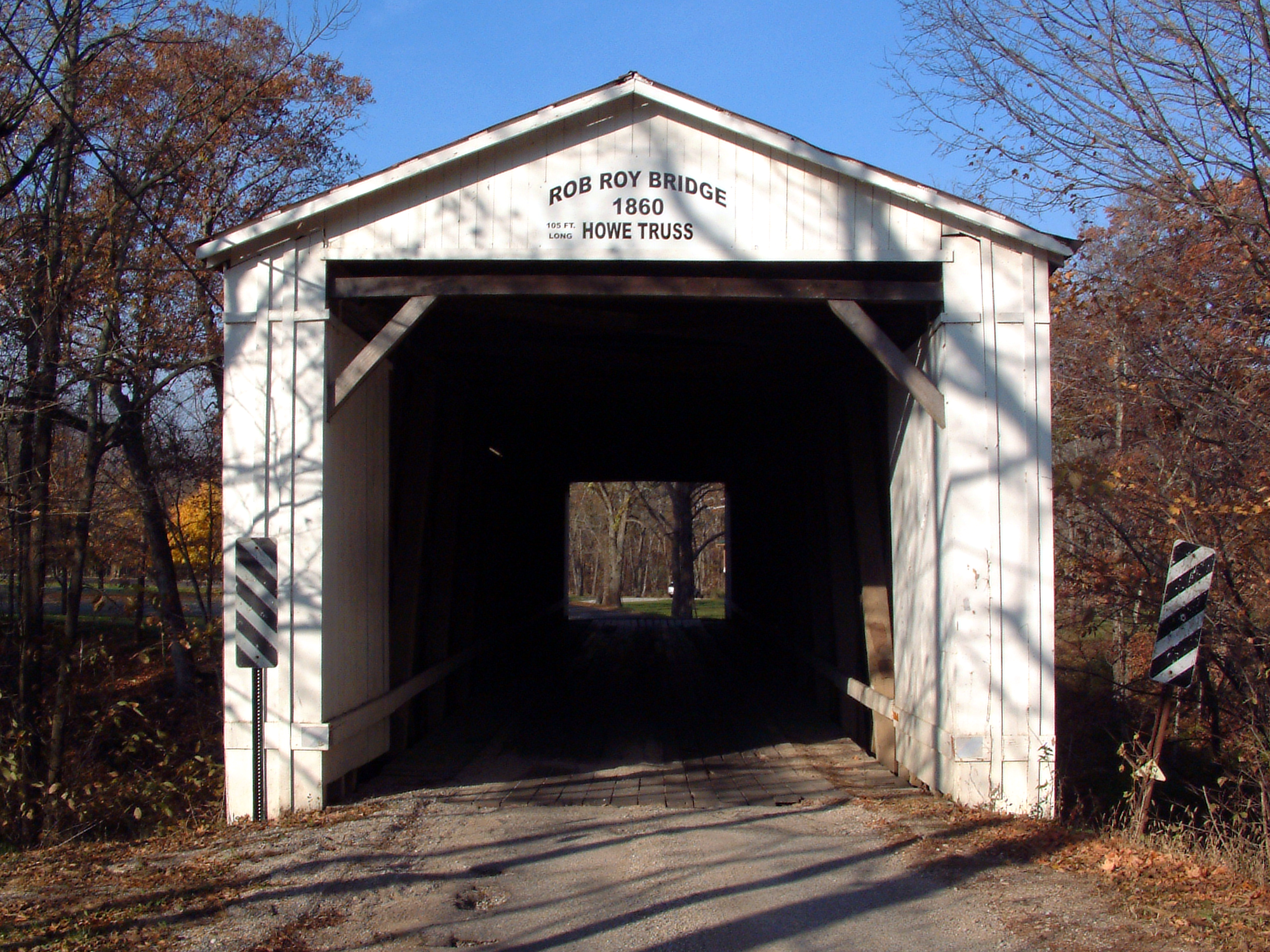 Looking west into the covered bridge crossing Big Shawnee Creek in the town of Rob Roy, Indiana.